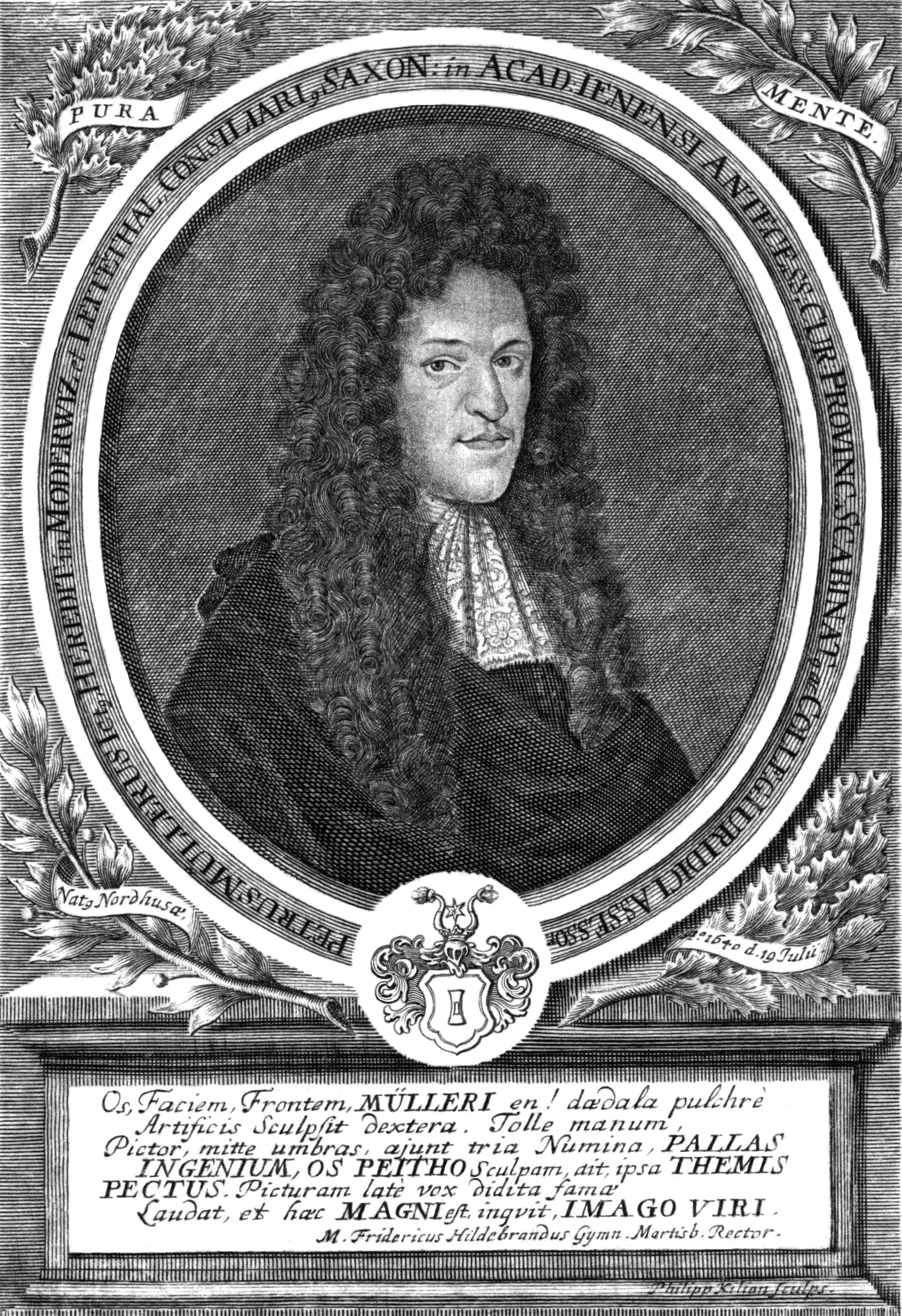 Peter Müller (1640-1696) german legal schholar